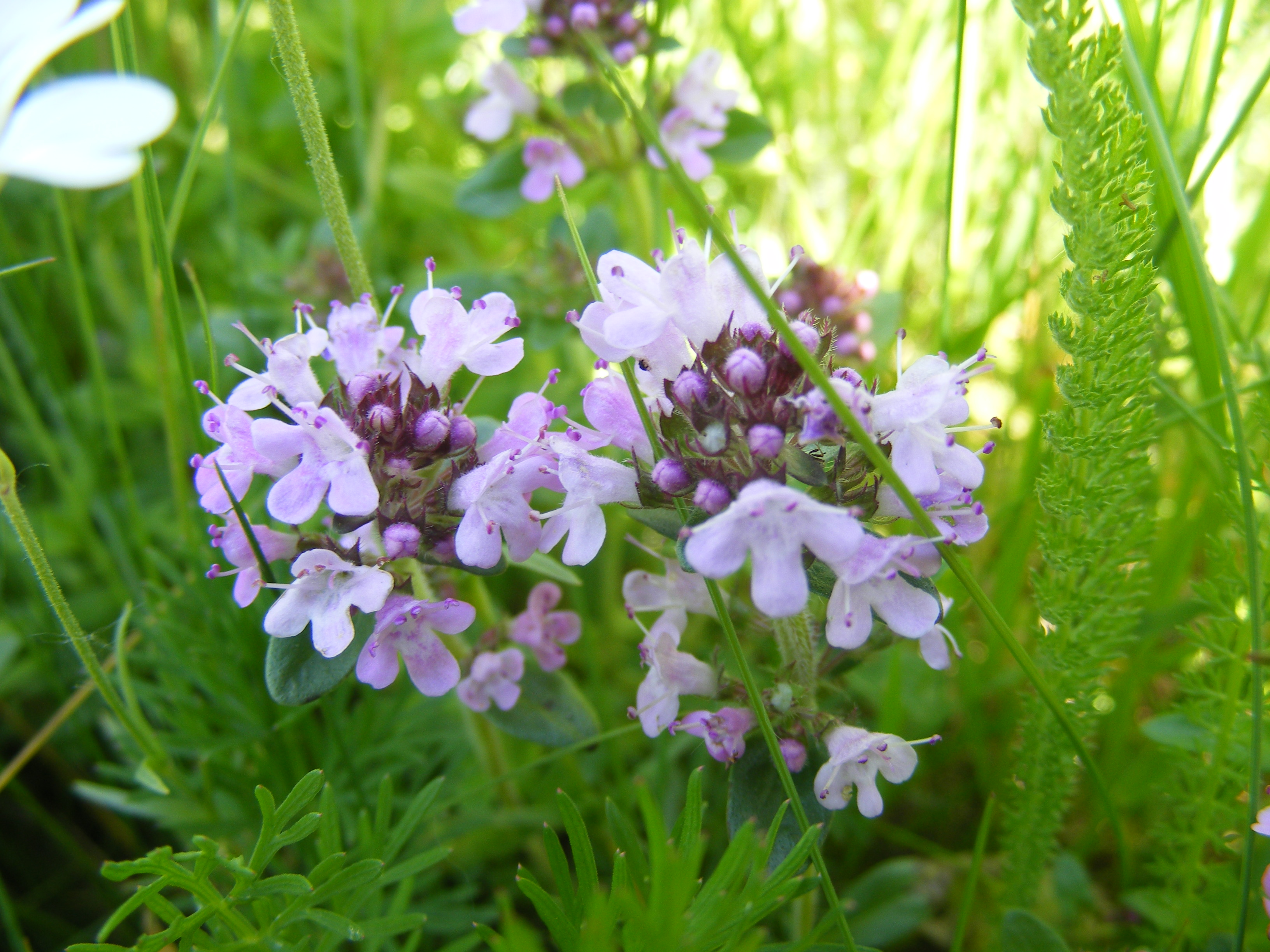 Thymus serpillum